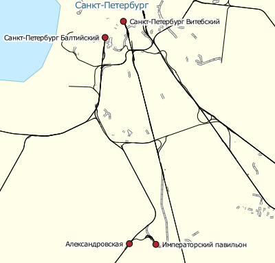 Emperior railway line. This map may be incomplete, and may contain errors. Don't rely solely on it for navigation.